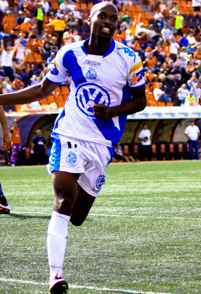 American player DaMarcus Beasley